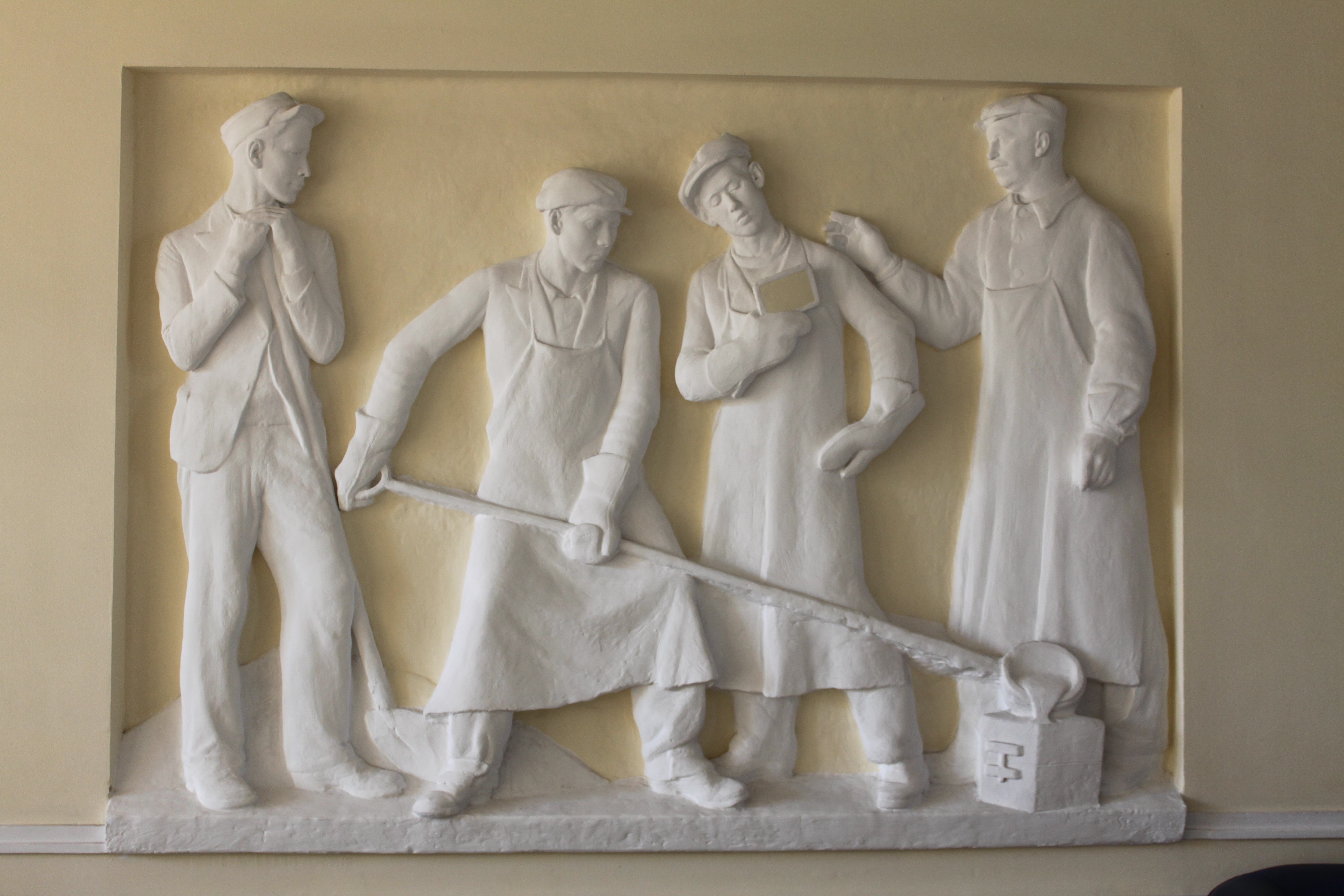 Socialist realist relief in the Dunaújvárosi Főiskola (College of Dunaújváros), representing a metallurgic process